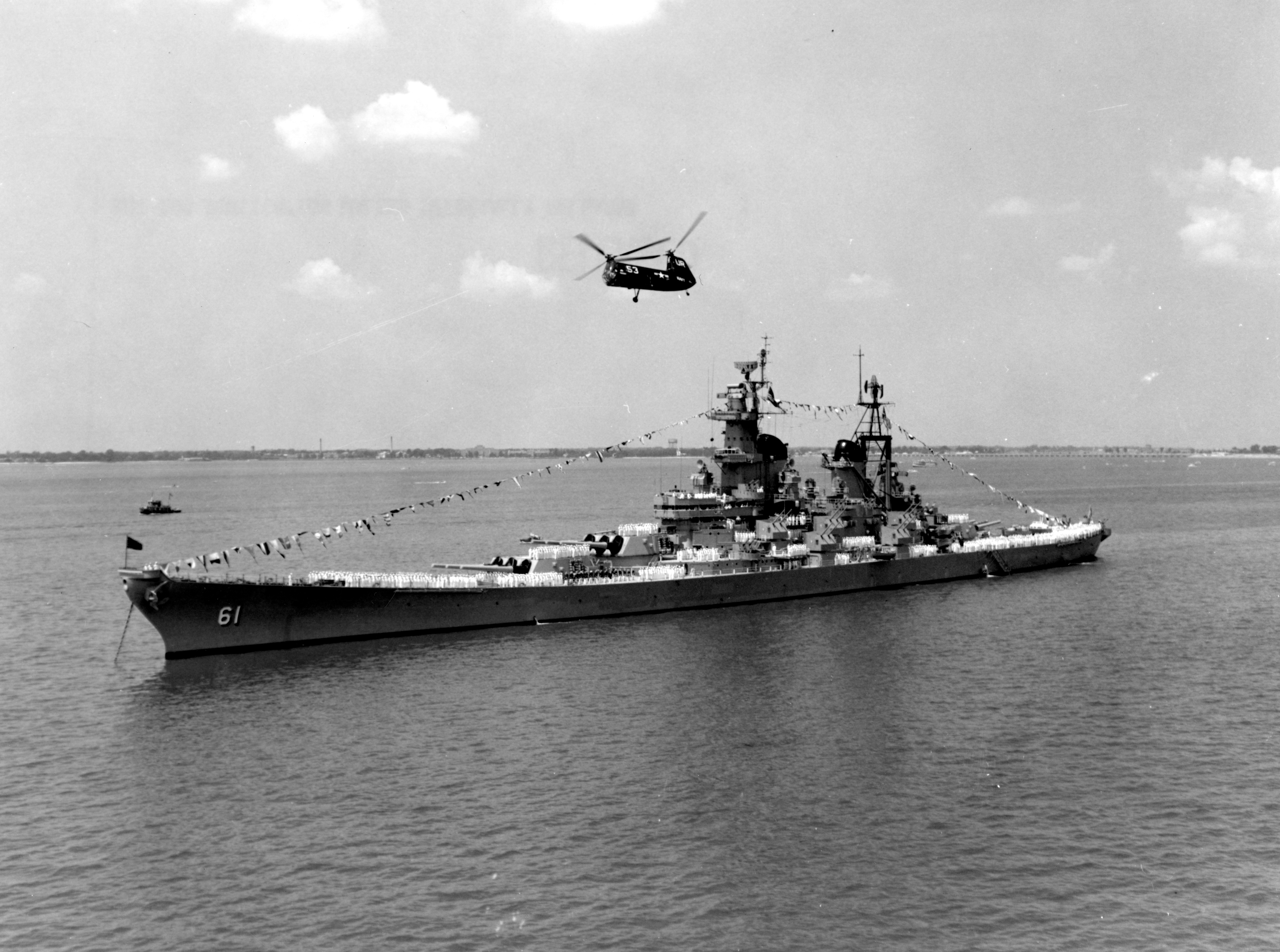 The U.S. Navy battleship USS Iowa (BB-61) anchored in Hampton Roads, Virginia (USA), with her crew paraded on deck, as last minute details are completed for the International Naval Review, 12 June 1957. A Piasecki HUP Retriever helicopter is flying overhead.